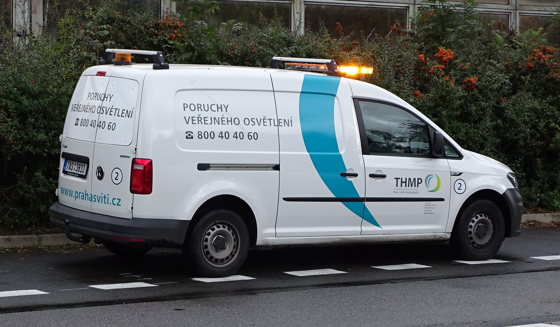 Prague-Libeň, Czechia. Náměstí Na Balabence, a van of Technologie hl. m. Prahy.